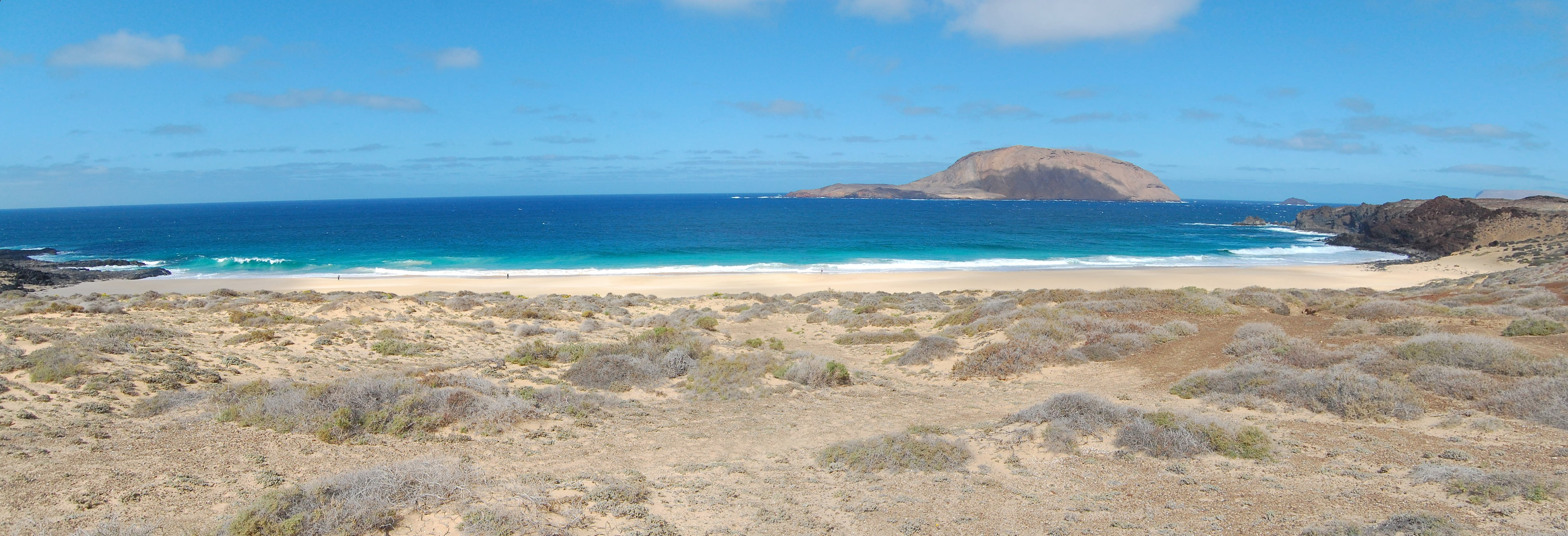 Playa de las Conchas, La Graciosa